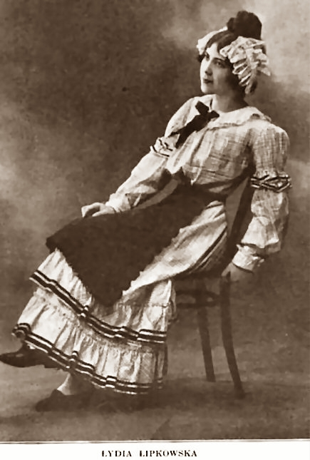 Opera Singer Lydia Lipkowska